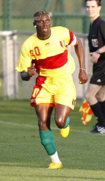 Fodé Mansaré, Guinean football player, during Guinean national team friendly match against the Stade Rennais youth team.